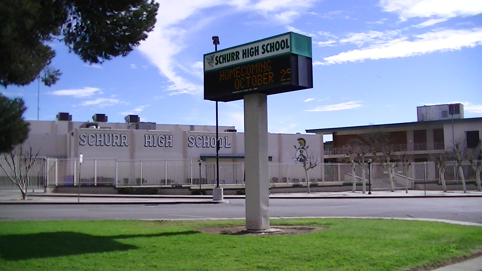 Front of Schurr HIgh School, Montebello, California